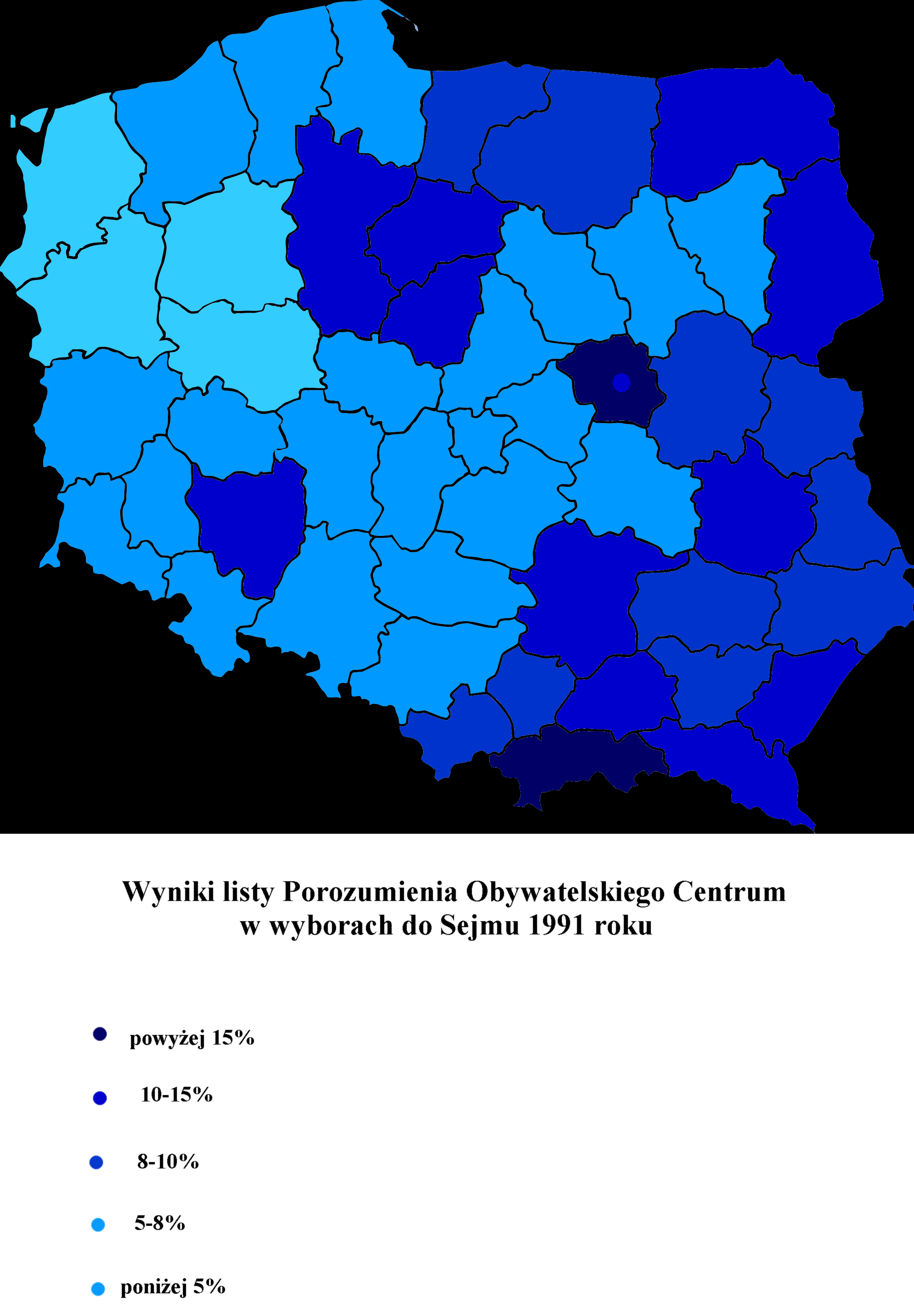 Center Civic Alliance results in the Polish parliamentary election, 1991